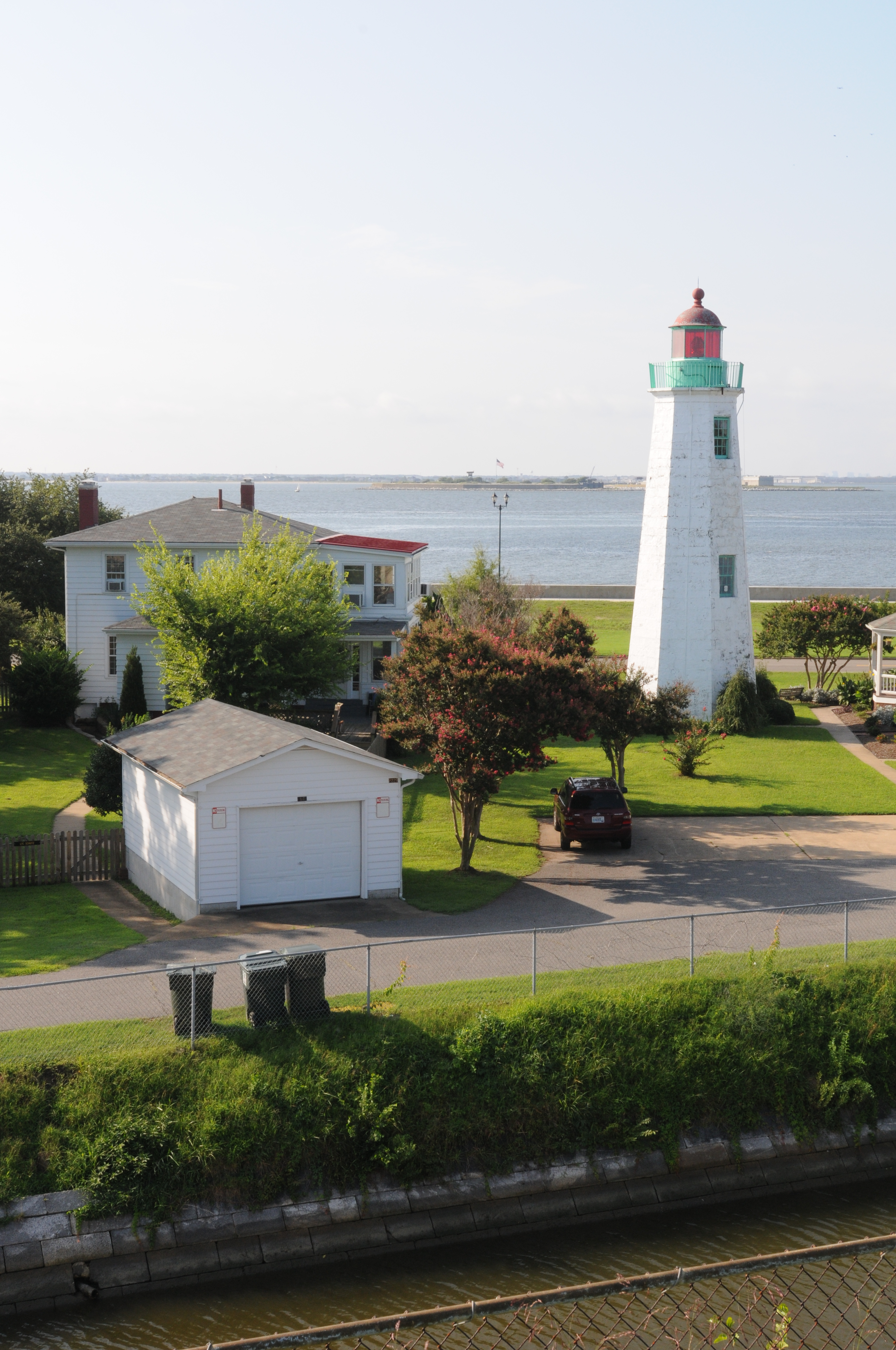 Old Point Comfort lighthouse (built in 1803) with Fort Wool in the background, seen from the walls of Fort Monroe, Va. U.S. Army Environmental Command photo by Neal Snyder